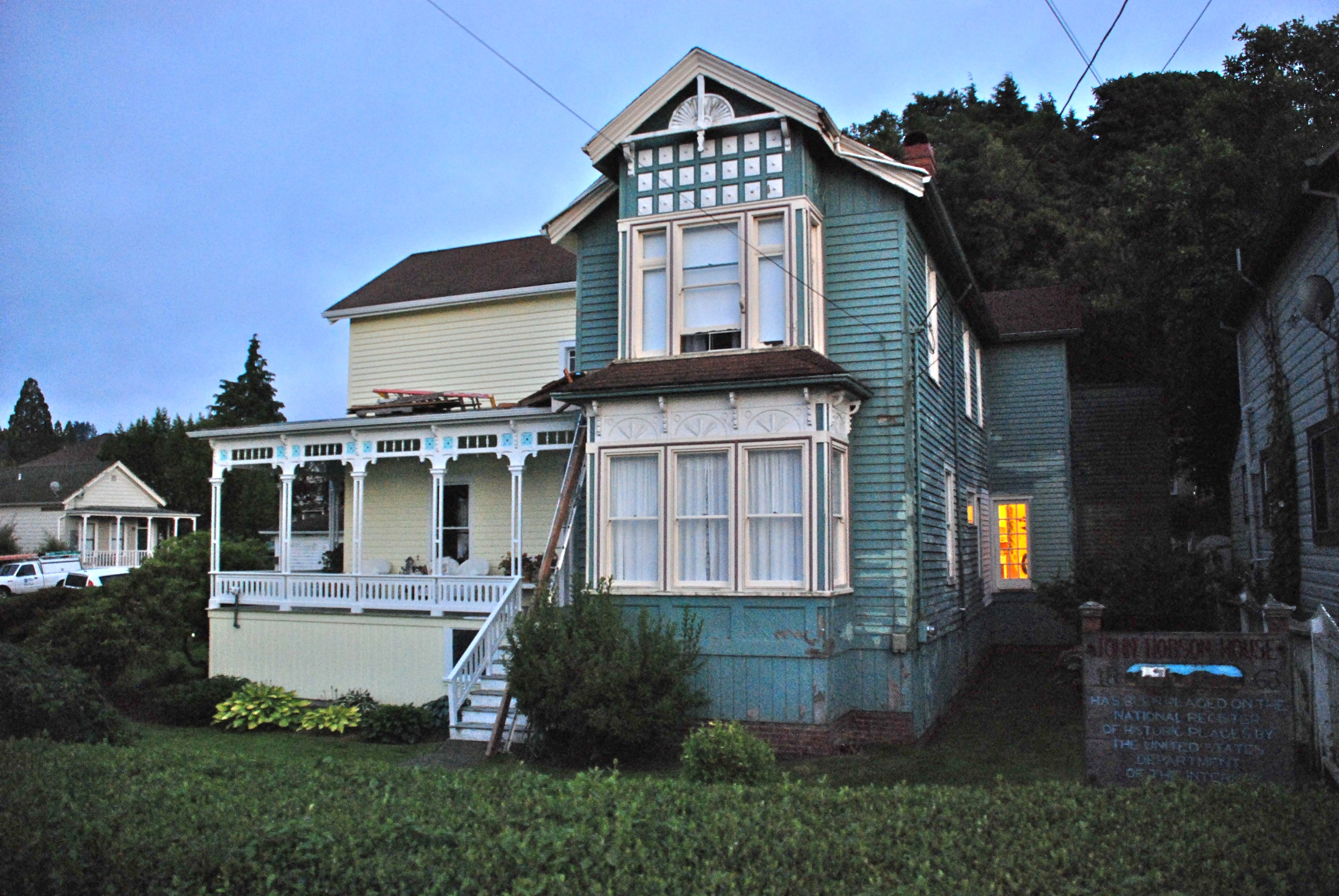 The John Hobson House (built in 1863), at 469 Bond Street in Astoria, Oregon, is listed on the U.S. National Register of Historic Places.